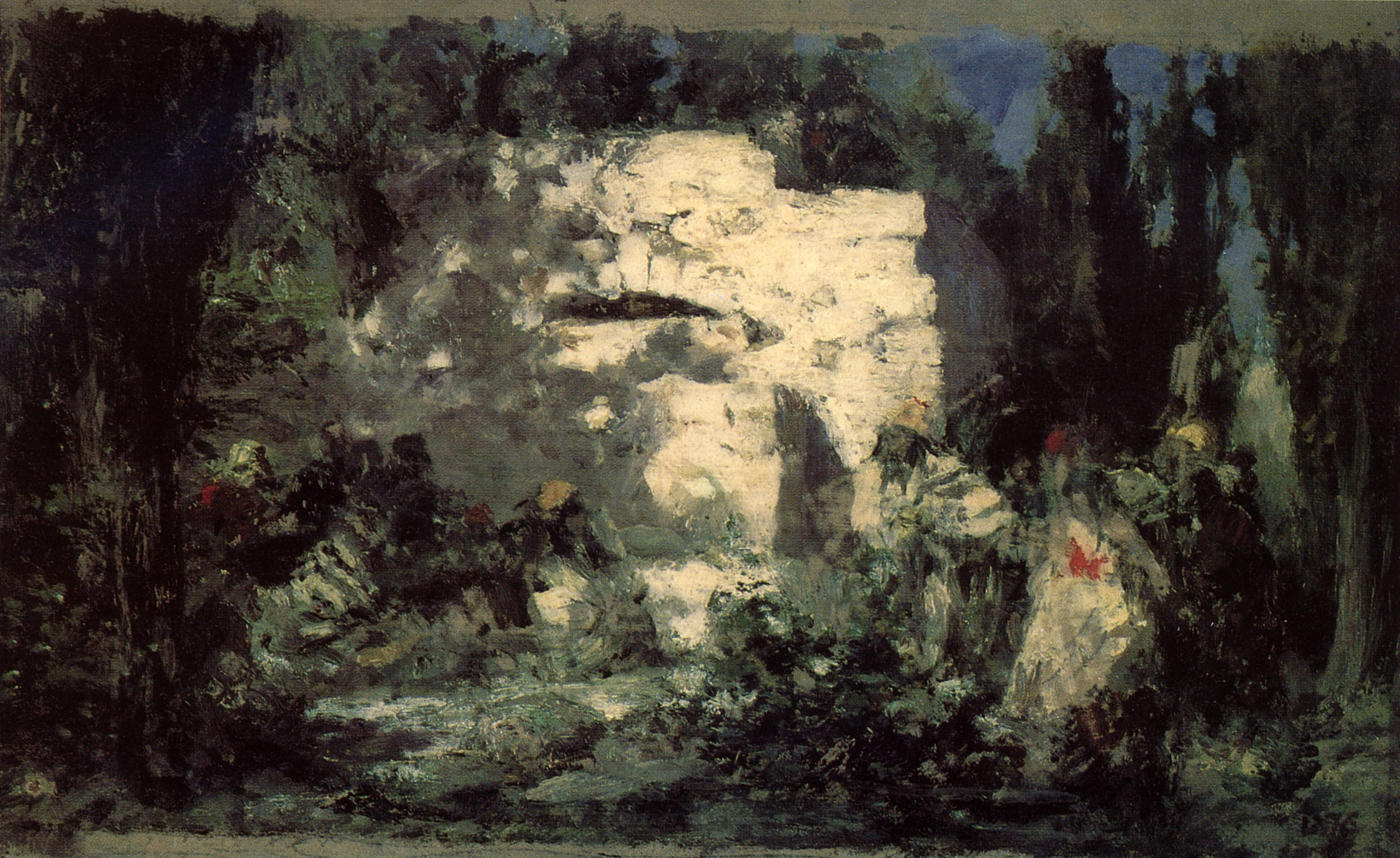 Christ and the woman taken in adultery (study by Vasily Polenov for the 1888 painting)